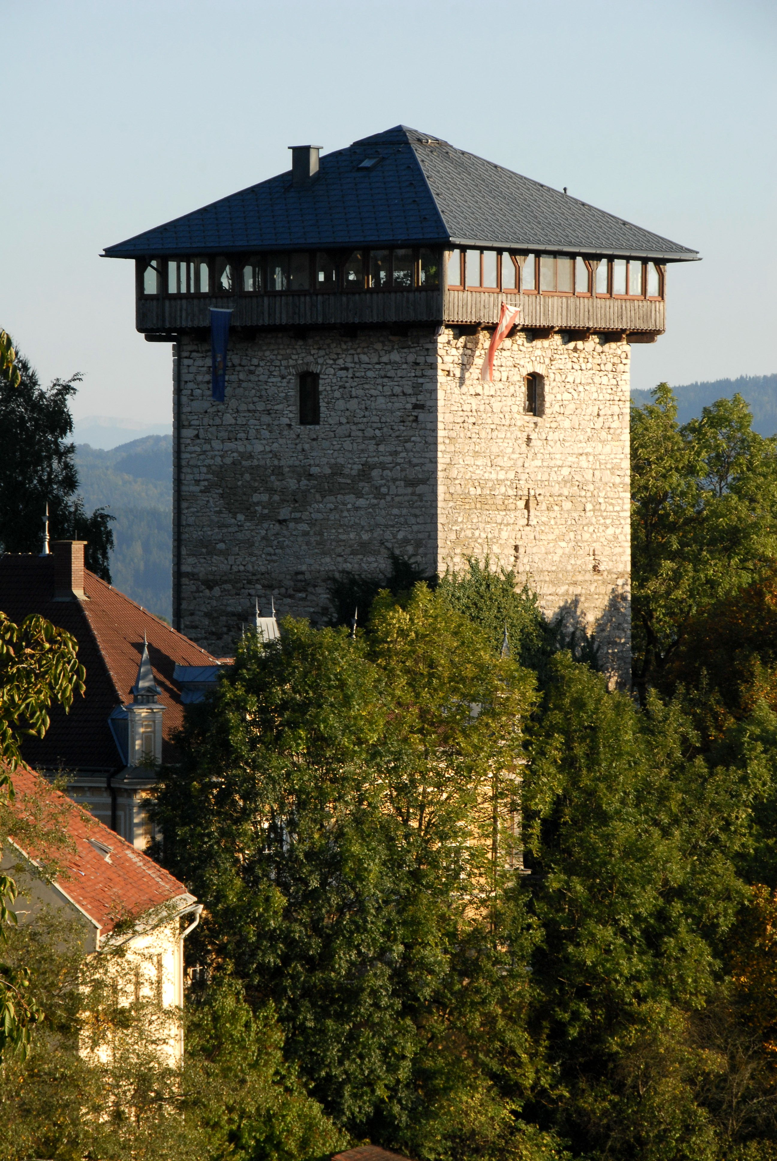 Tower of the castle Althofen in Althofen, district Saint Veit on the Glan, Carinthia, Austria